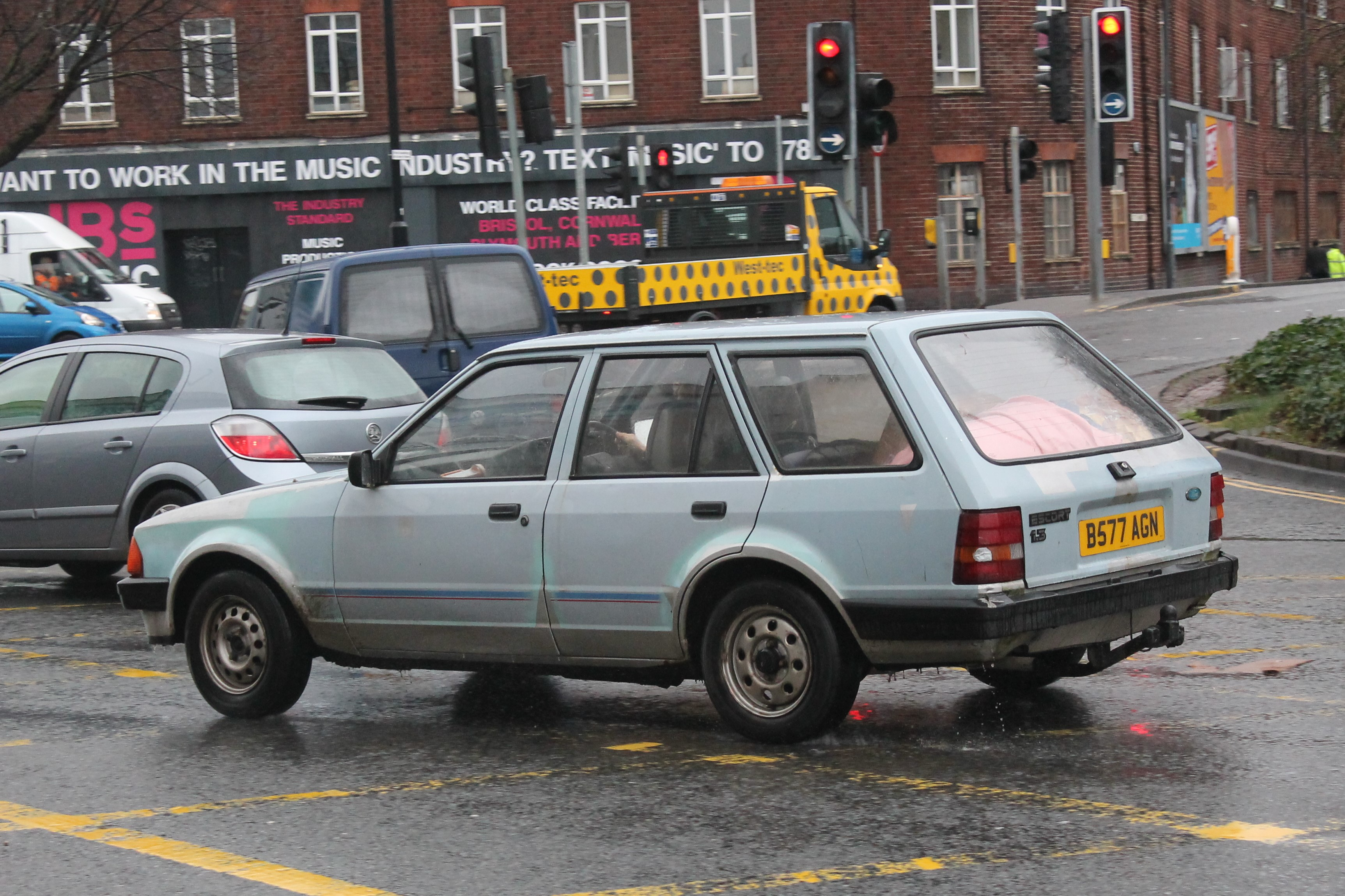 Can't believe I found another Mk2 base estate! I still haven't spotted a single hatchback, but that makes three of the estates in the last twelve months. This example looked very well used, and had several shades of light blue all over it. Clearly the workhorse, being used in the pouring rain. A lucky catch- it fortunately was stopped at the traffic lights when I saw it. I was worried a car would cut in front too. Sorry everyone for the lack of uploads- I handed in my laptop a couple of weeks ago to get photos transferred from my dead Apple iMac to this, but it took them ages to do it, and at the end I was given a hefty bill for £114. Wasn't best pleased seeing as they quoted me £30....